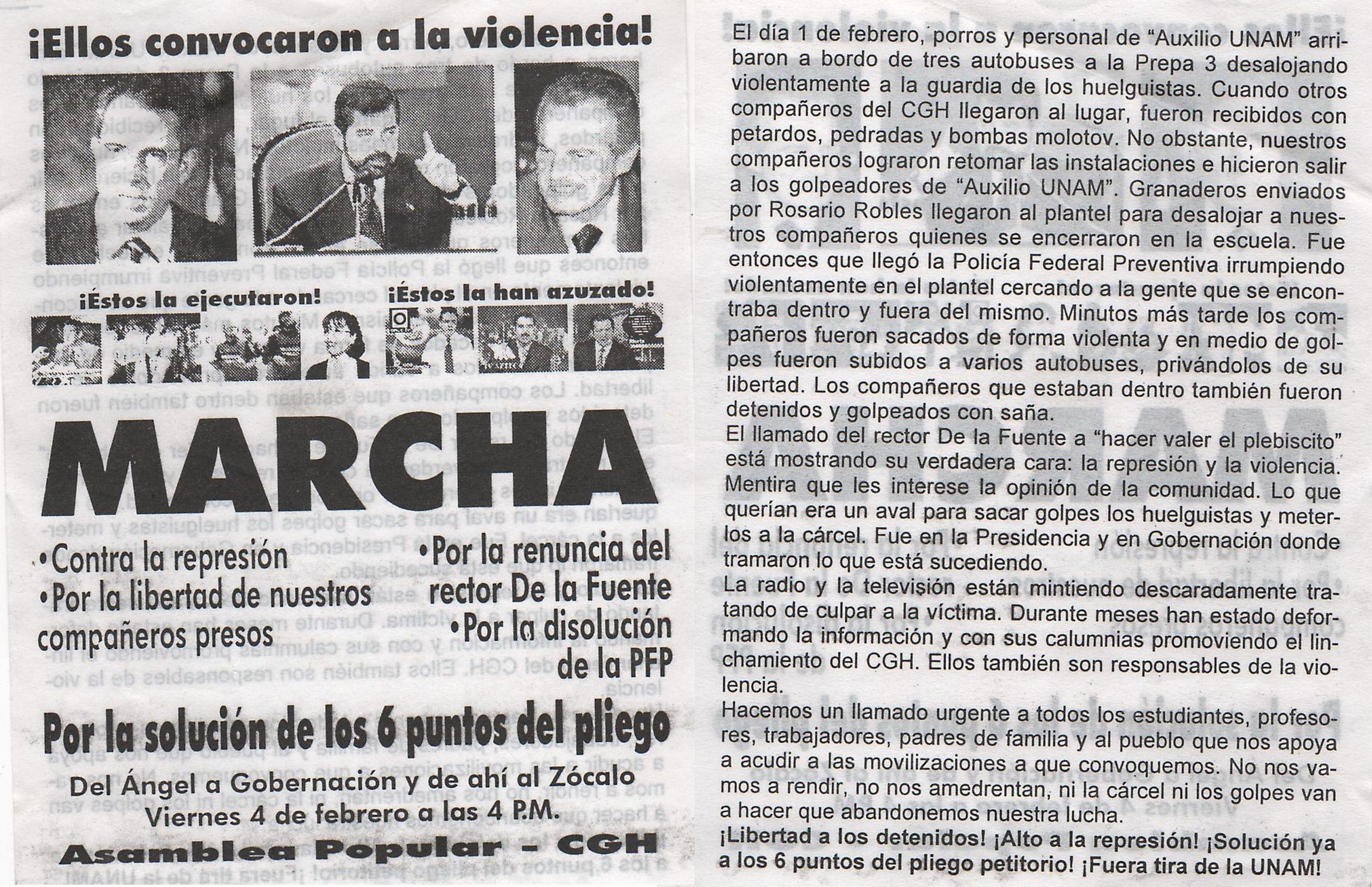 CGH information papers where they give to the public they position about the conflict.